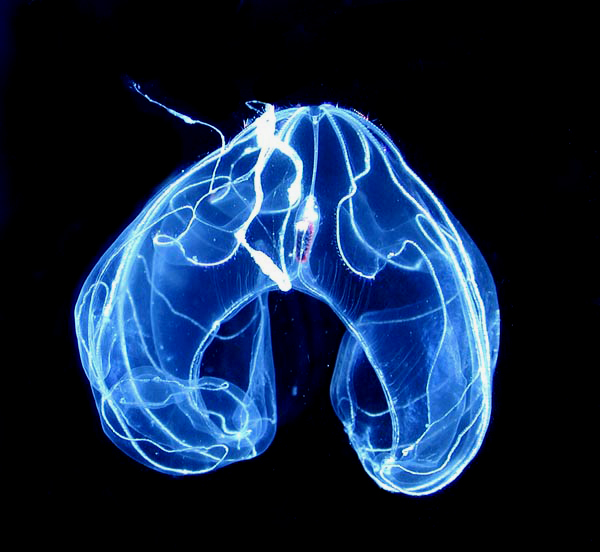 This is an example of a ctenophore, Bathocyroe fosteri, which is a mesopelagic species.